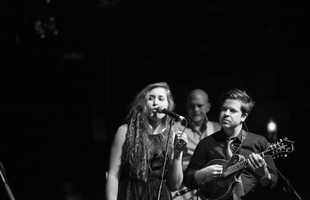 Tanya Gallagher performing with Big Virginia Sky at Vinyl Music Hall in Pensacola, Florida in December 2013